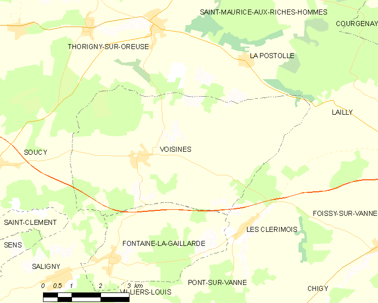 Map of French municipality Voisines